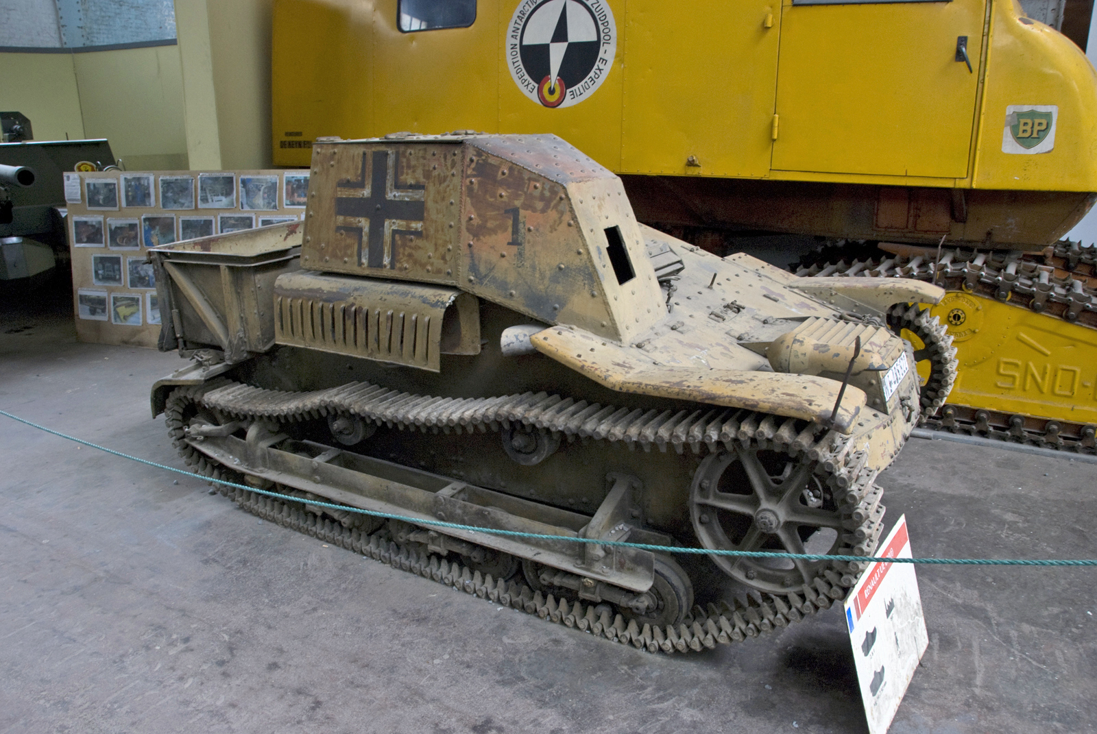 German conversion Renault UE